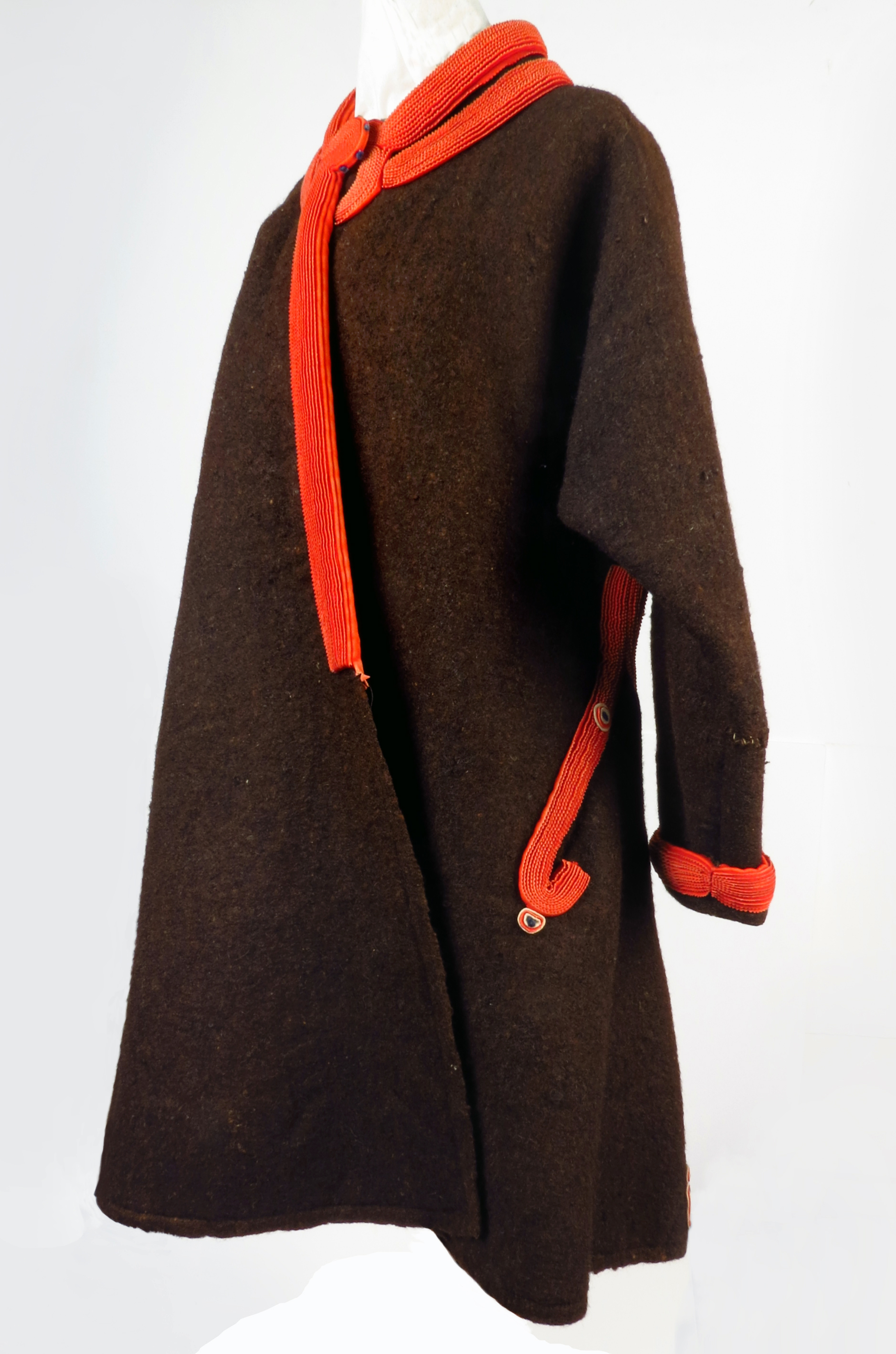 Gunia, woolen topcoat. Material: homespun cloth. Locality: Ochotnica Dolna. Ethnographic region: Podhale. The collection of The State Ethnographic Museum in Warsaw. PME 3671